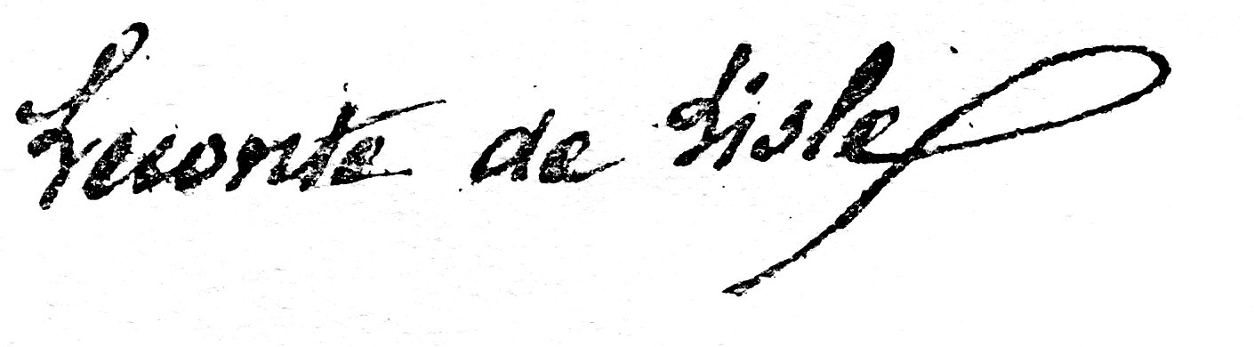 Signature Leconte de Lisle